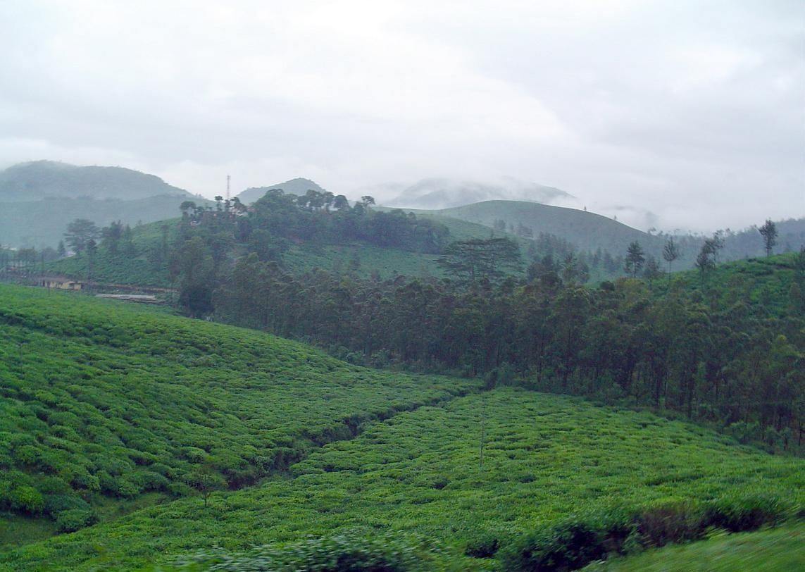 photographed by Pratheepps